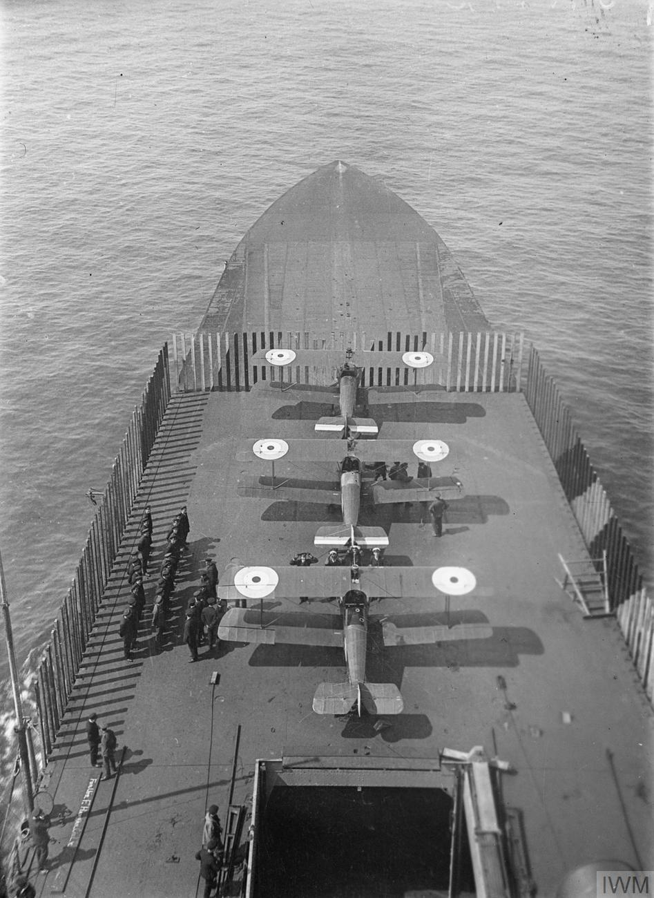 IWM desciption : "BRITISH SHIPS OF THE FIRST WORLD WAR. HMS FURIOUS with Sopwith Camel aircraft arrayed on her forward flight deck".